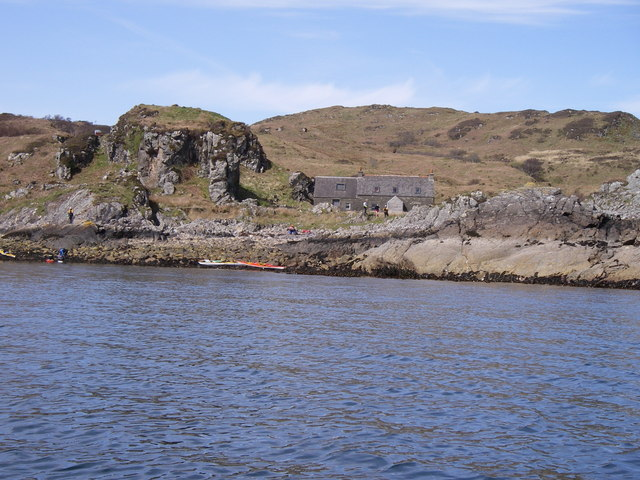 Shepherd's bothy on Garbh Eileach, largest of the Garvellachs, and for which they are named, in the Inner Hebrides, Scotland